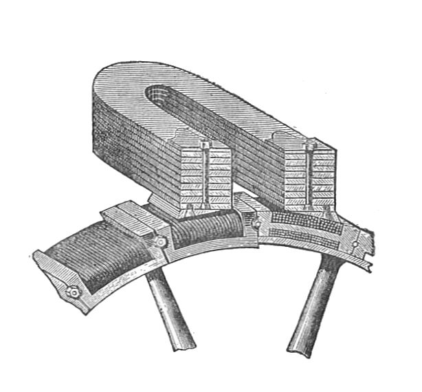 Fig. 199 Auguste de Méritens magneto generator, showing the 'ring wound' armature that forms a continuous hoop.